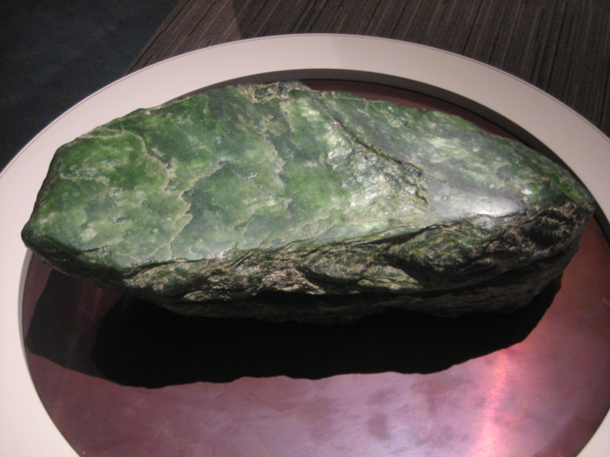 New Zealand nephrite, Museum of New Zealand Tepapa Tongarewa, Wellington